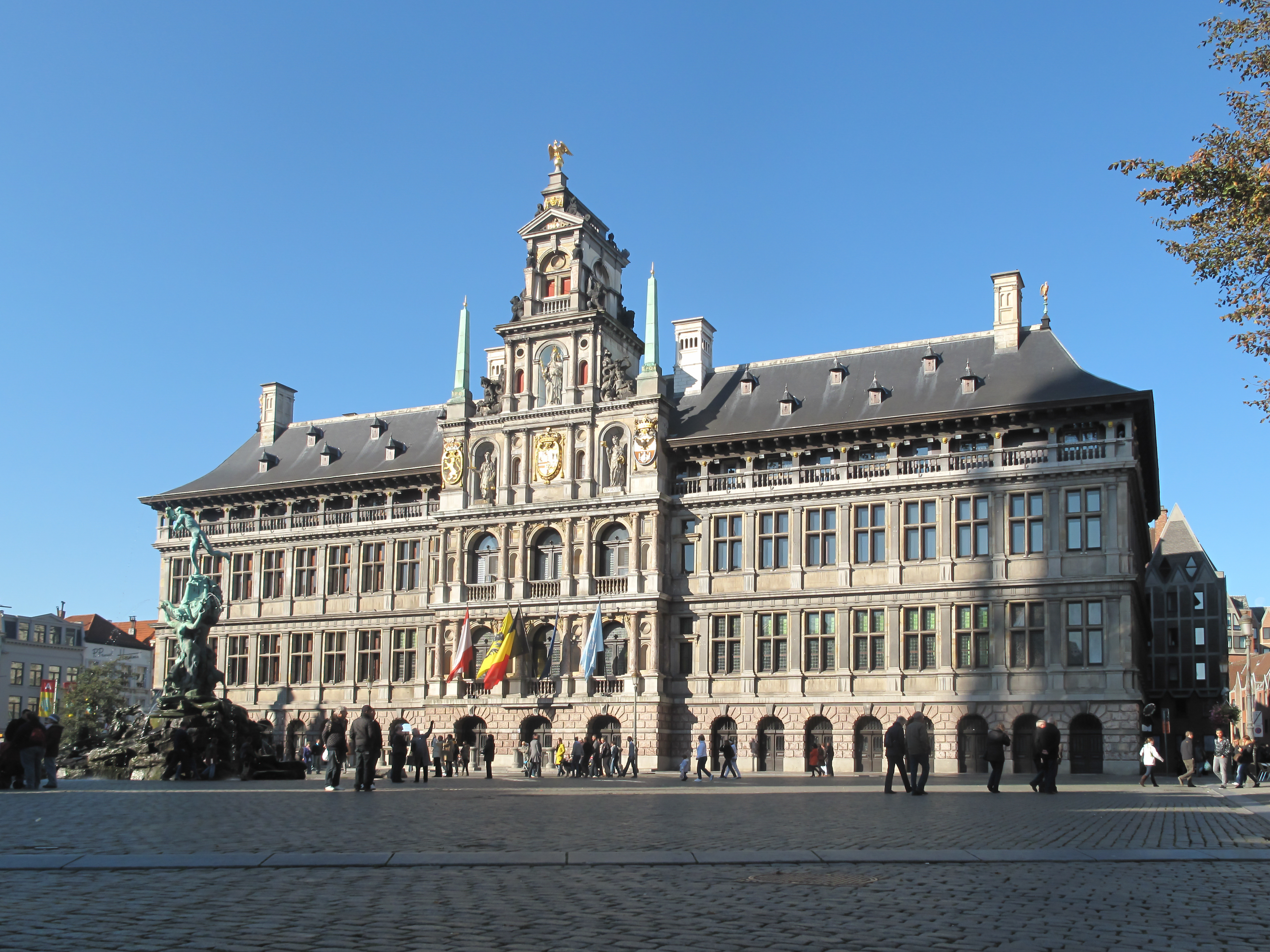 Antwerpen, town hall